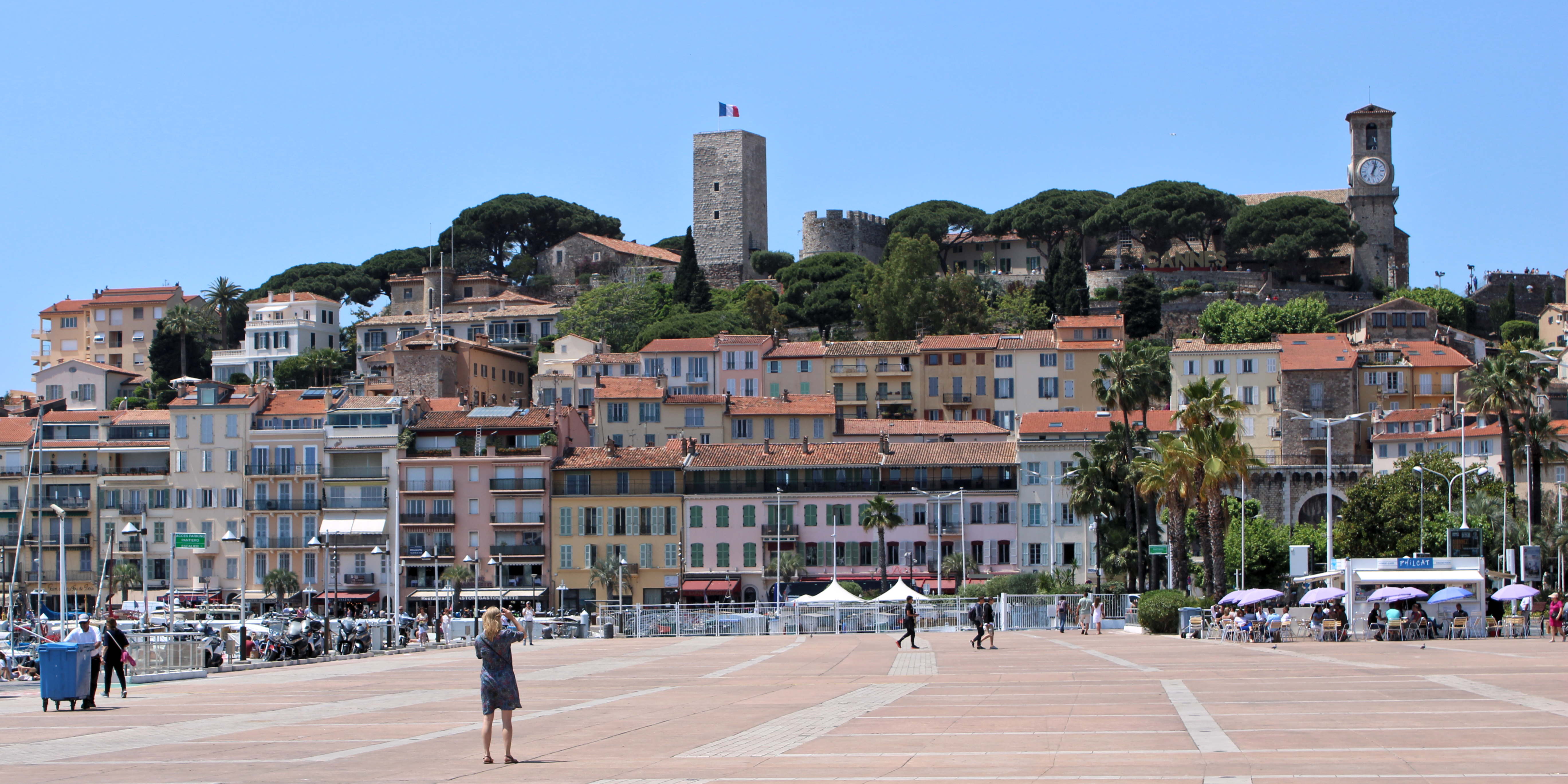 Chapelle Sainte-Anne in Cannes